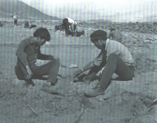 Ulug-Khorum